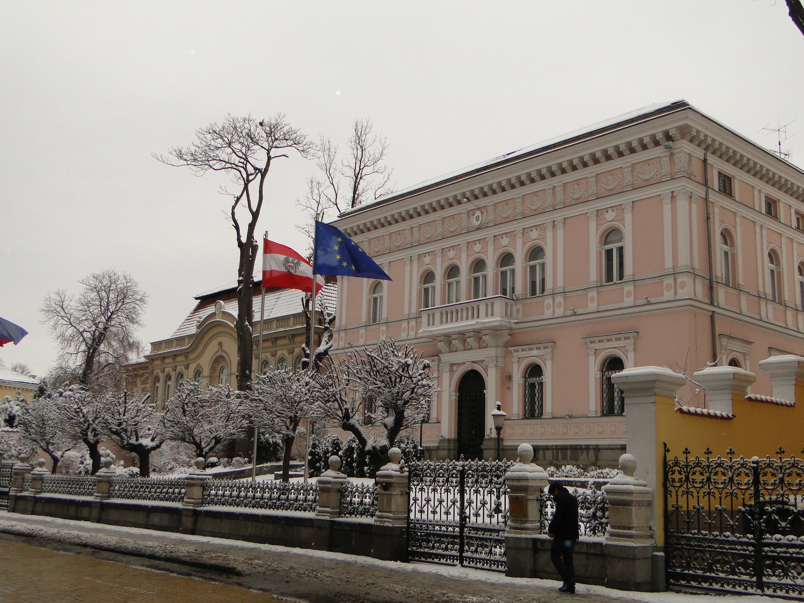 СОФИЯ 2011 The Austrian Embassy